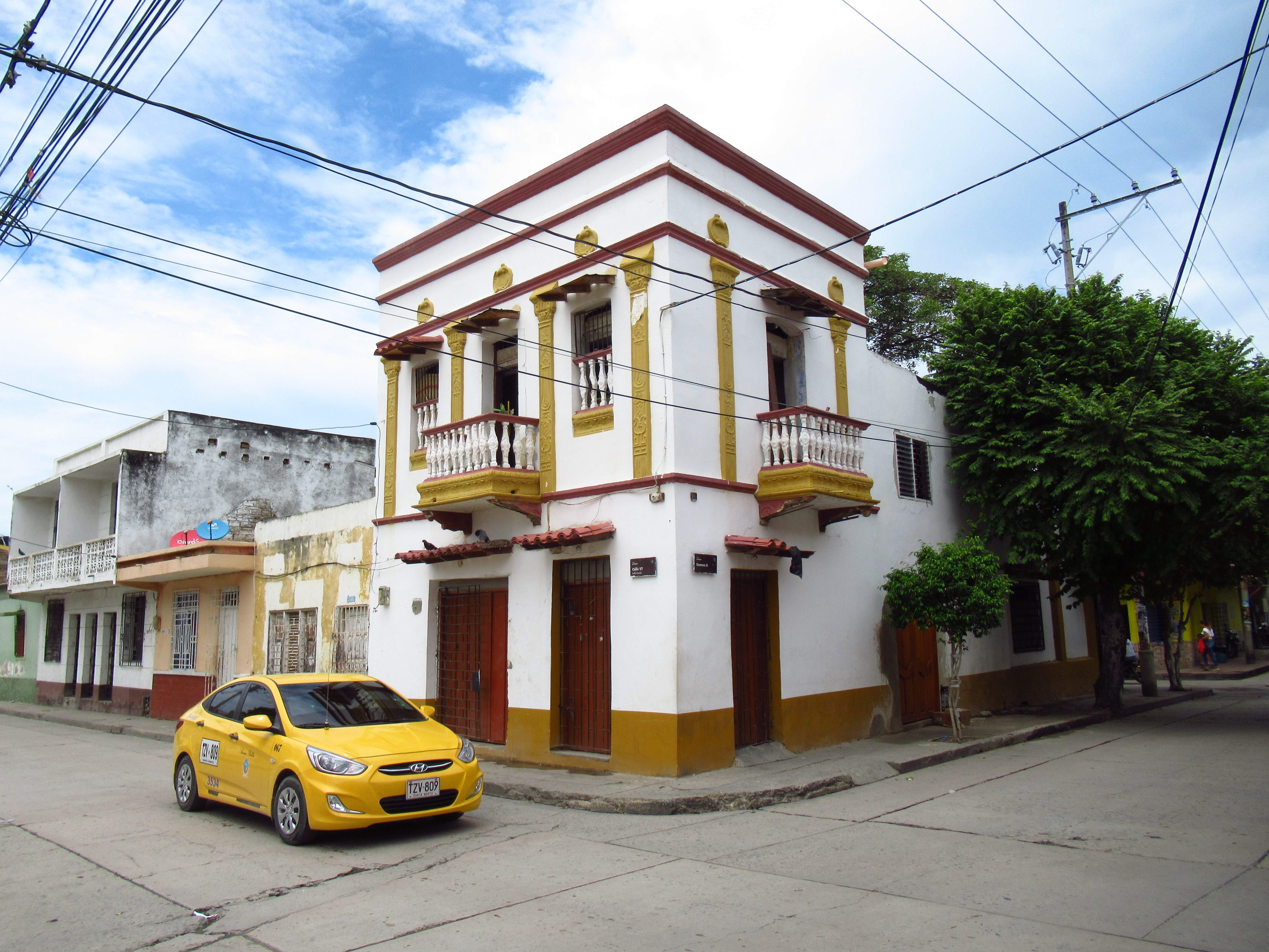 Santa Marta